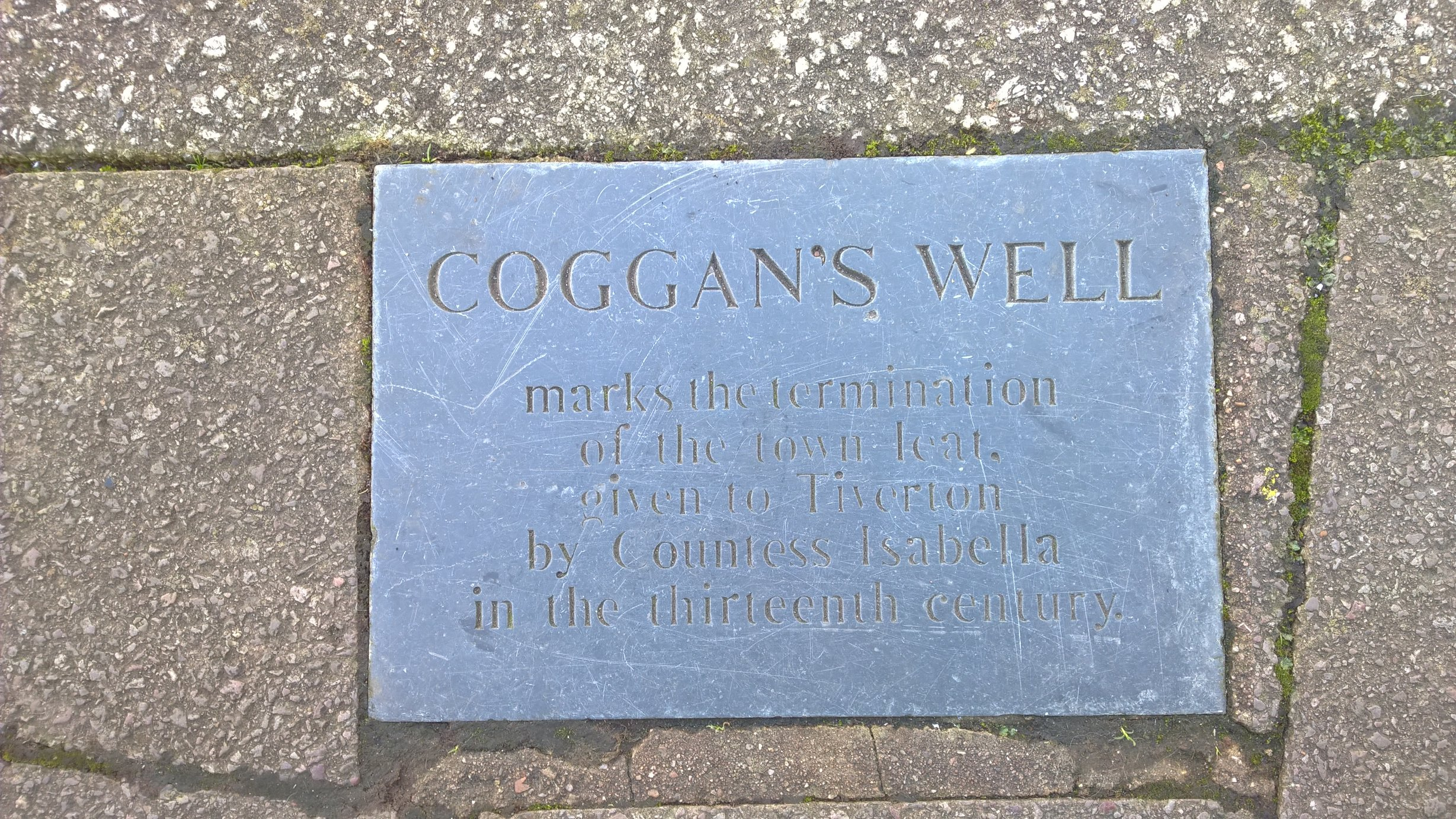 This plaque in Fore Street, Tiverton, Devon indicates the termination point of the town leat.